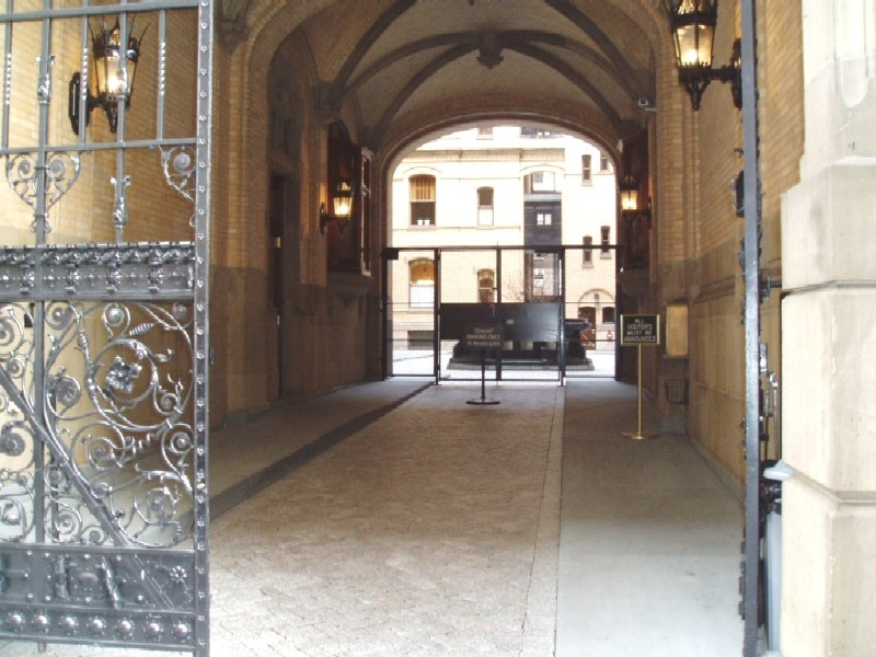 Entrance to the Dakota Building where John Lennon was shot. Ref.